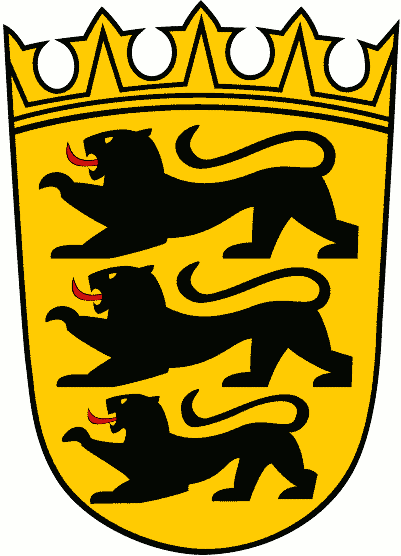 Lesser coat of arms of Baden-Württemberg